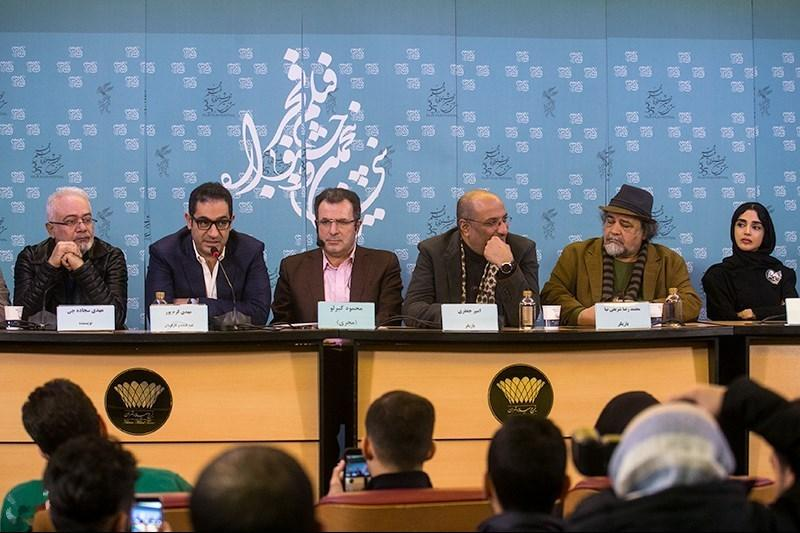 Media conference of Sophie and the beast at Milad tower.